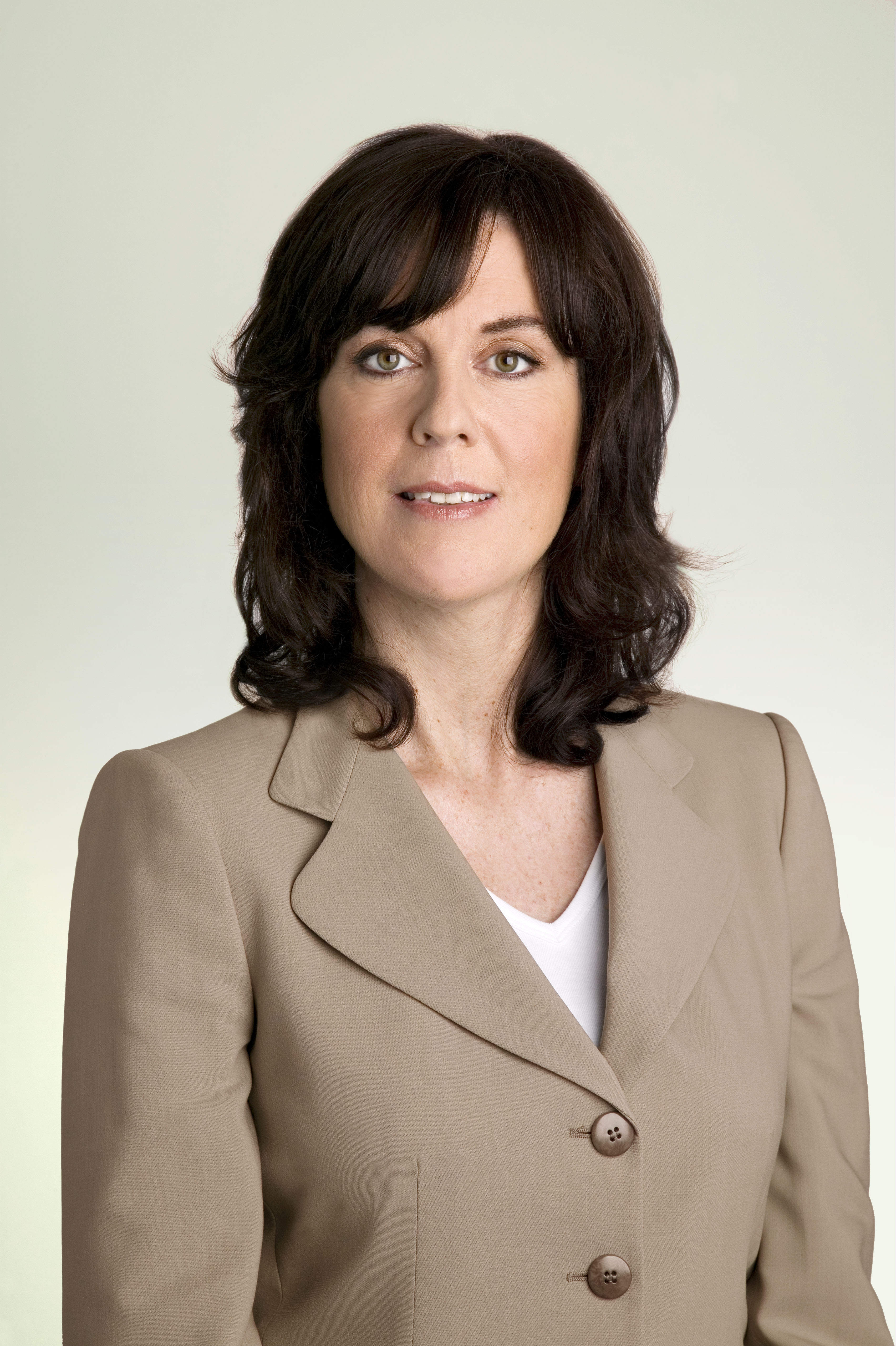 Irish politician Deirdre de Burca of the Green Party in 2008